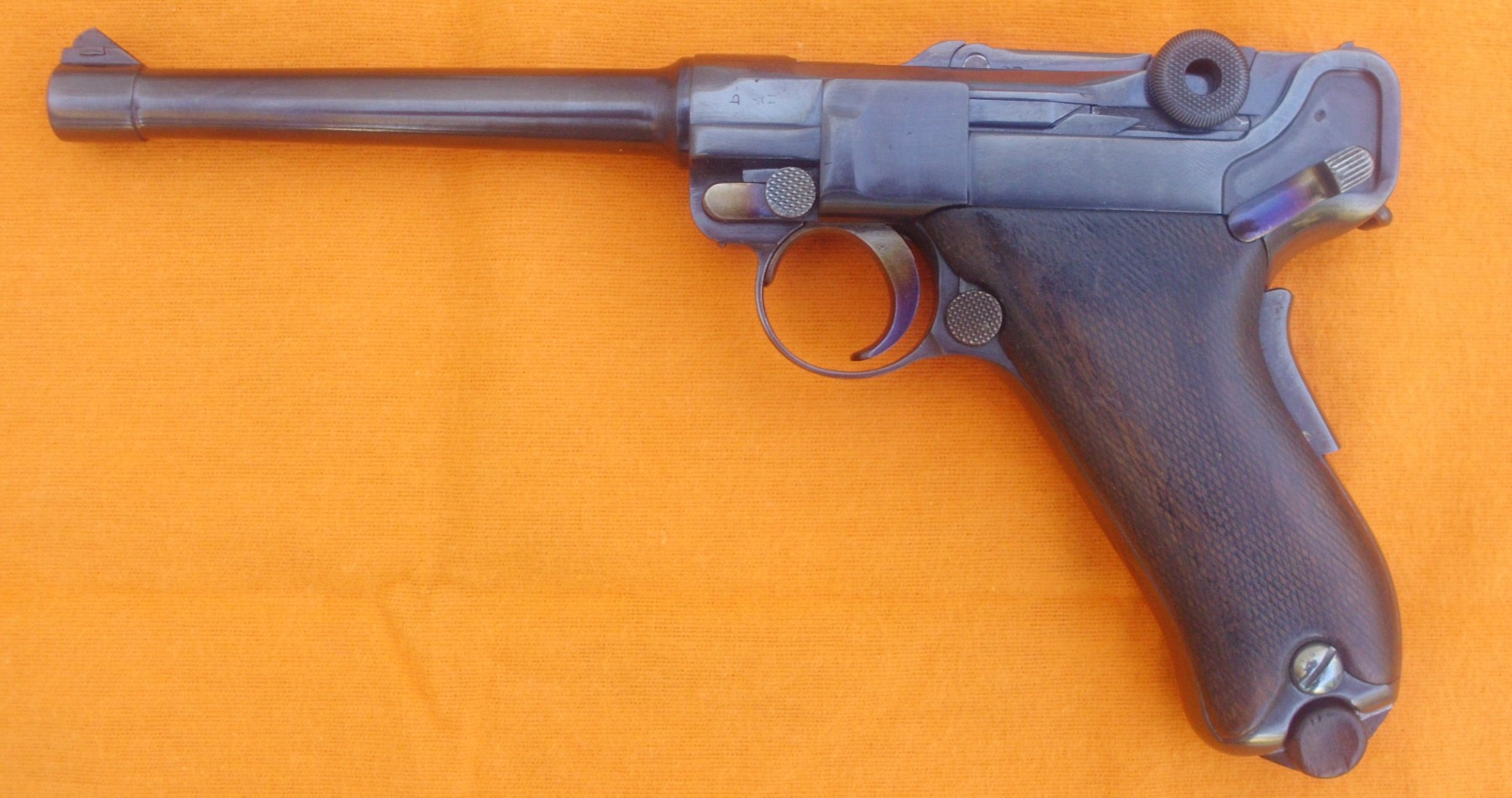 Pistola DWM sistema Luger Modelo 1900/06 Cal .30 Luger